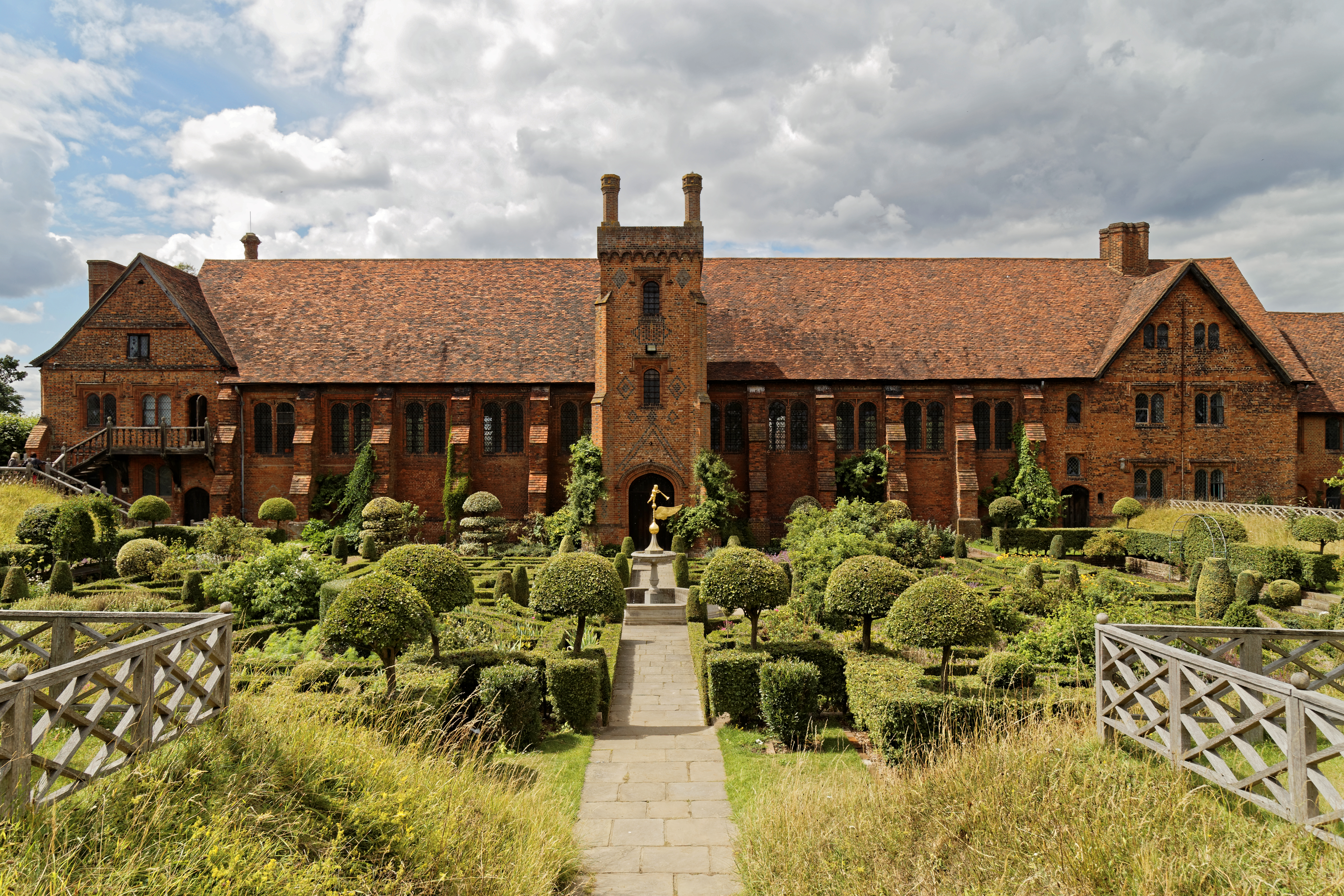 The Old Palace and knot garden parterre at the west of Hatfield House in Hertfordshire, England.Software: RAW file lens-corrected, optimized and converted to JPEG with DxO OpticsPro 10 Elite, and likely further optimized and/or cropped and/or spun with Adobe Photoshop CS2.